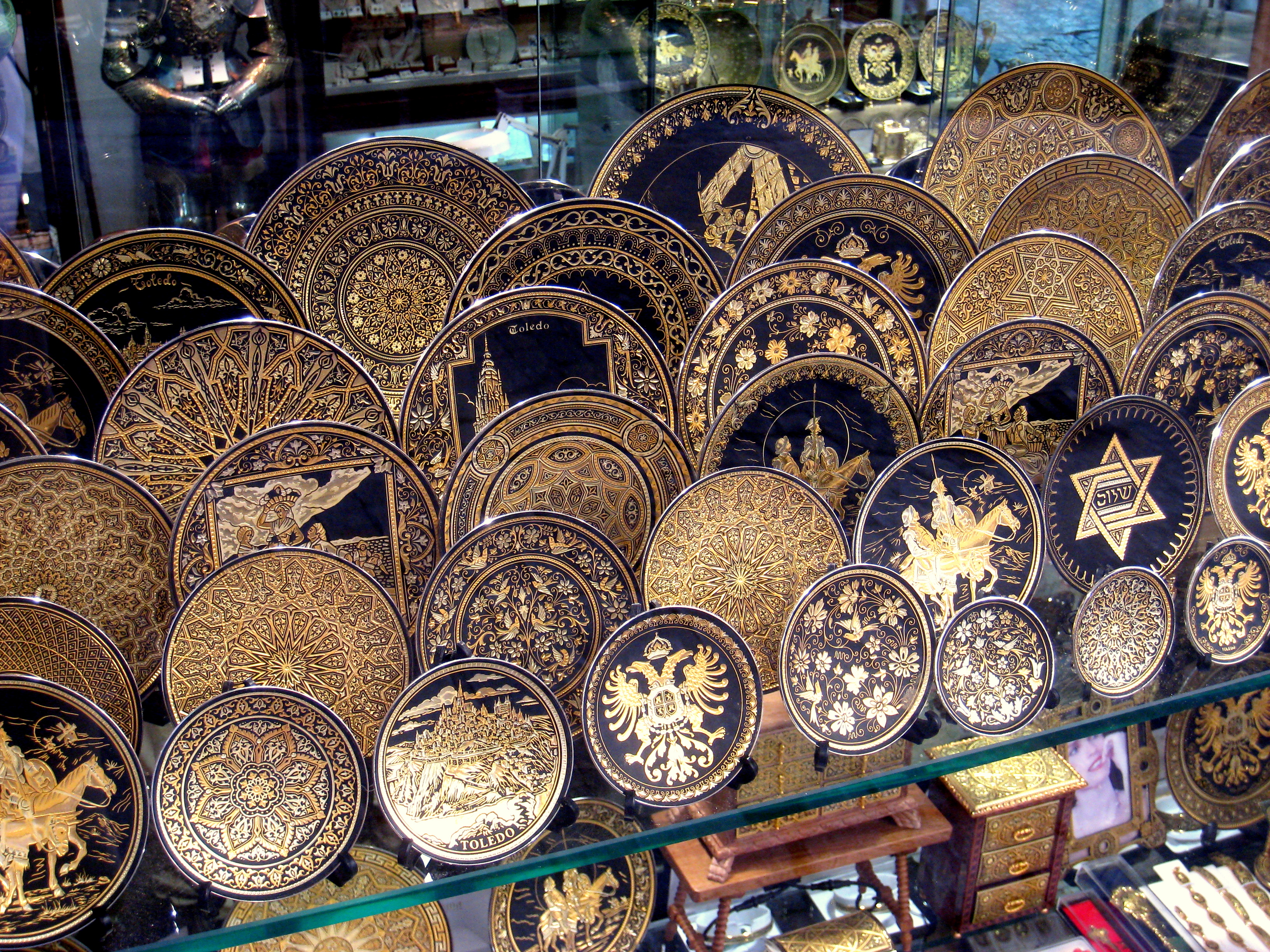 Tourist items, Toledo, Spain.